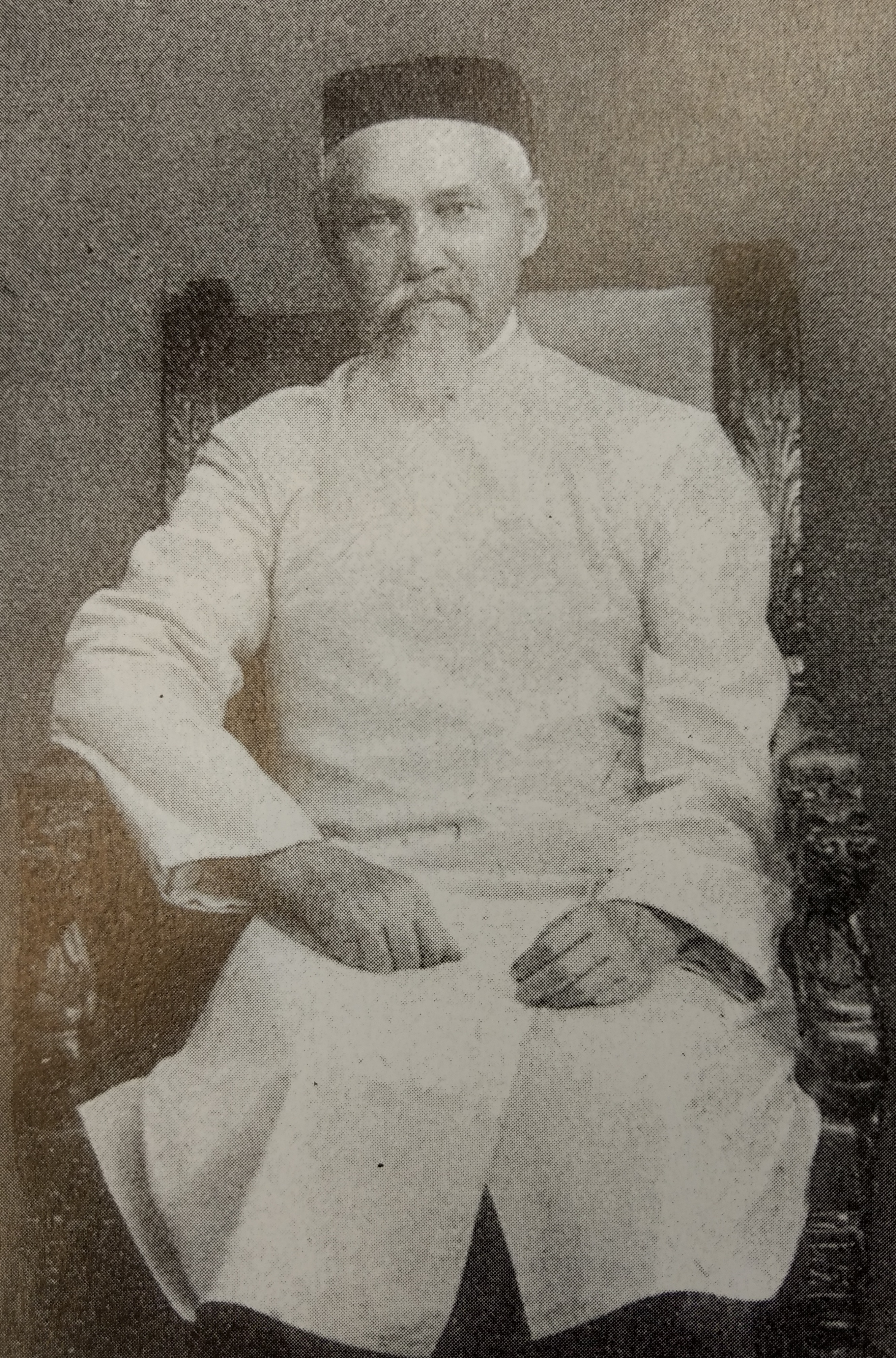 Portrait photograph of Rizaeddin bin Fakhreddin